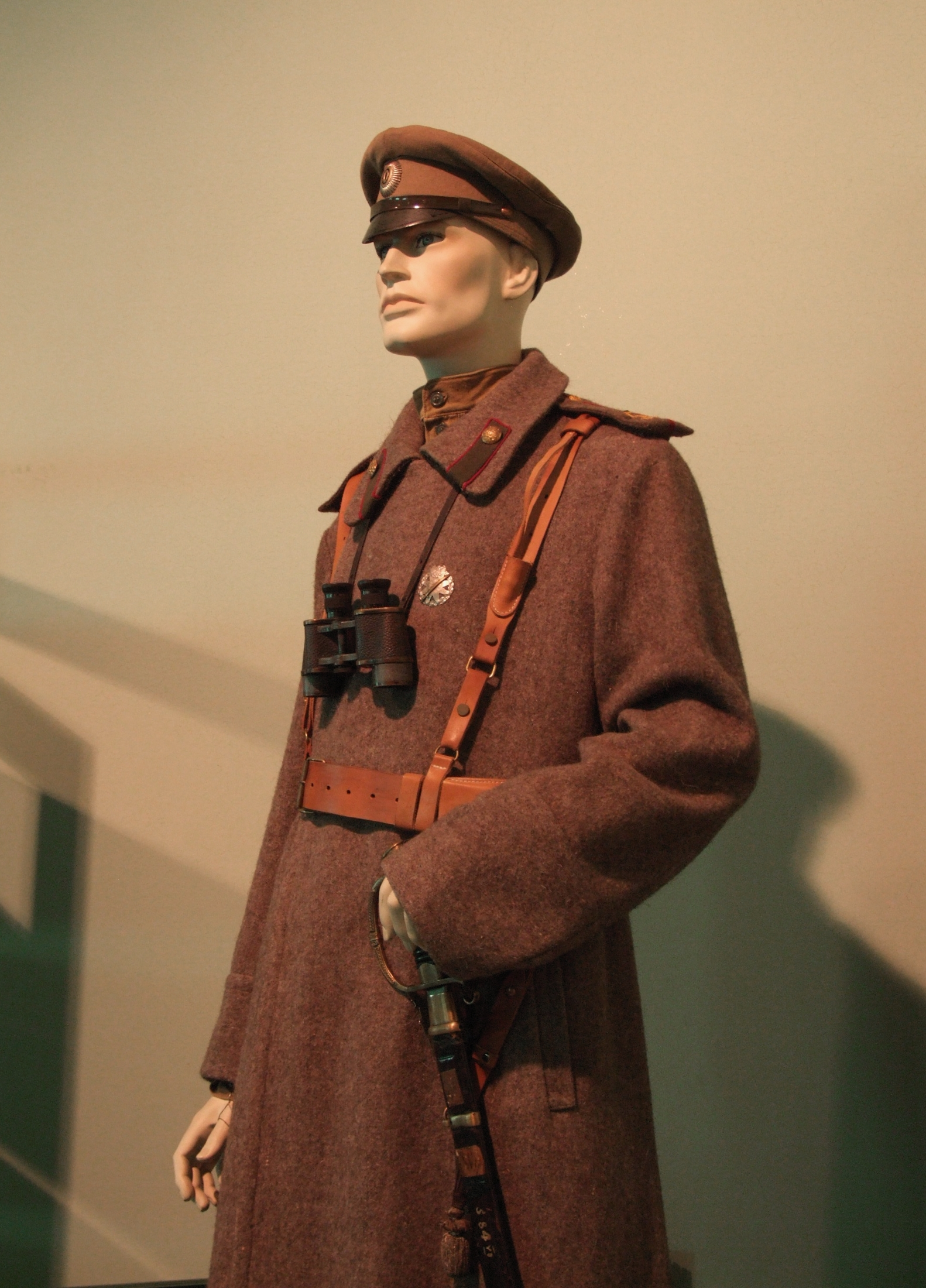 Uniform of Latvian Riflemen from 1916 year